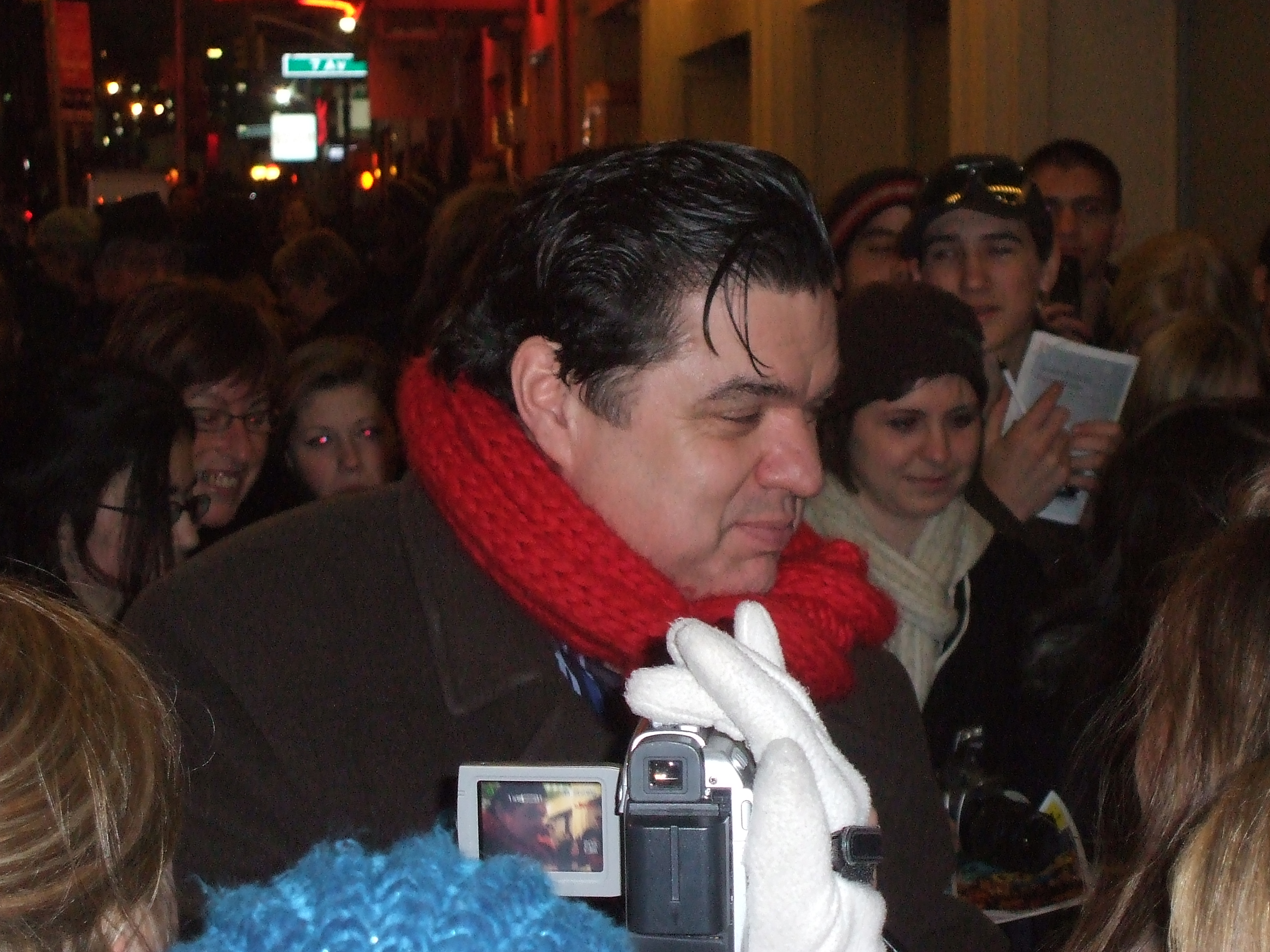 Oliver Platt greeting fans and signing autographs after a performance of Guys & Dolls at the Nederlander Theater in Manhattan on 21 February 2009.